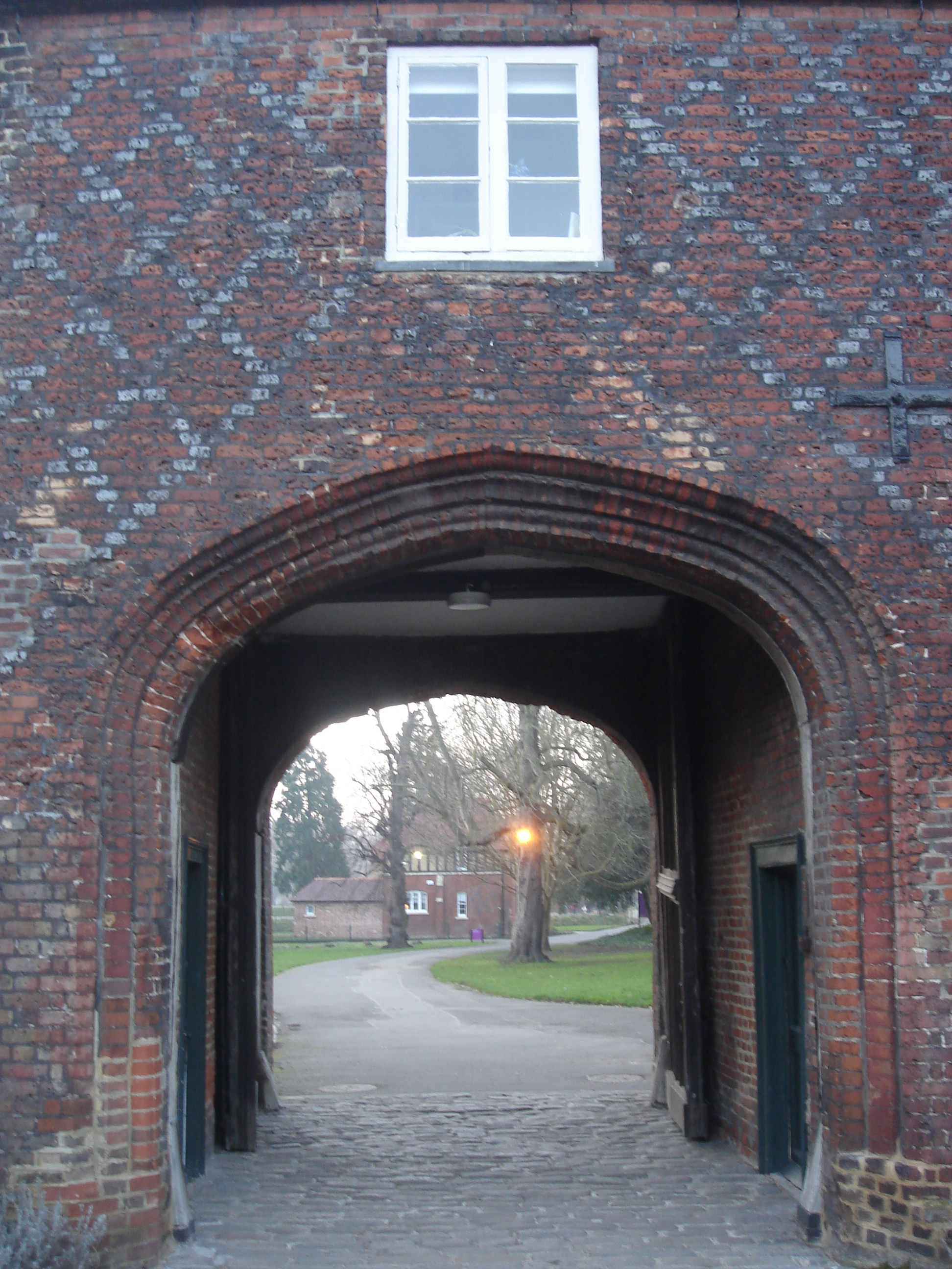 Fulham Palace, London